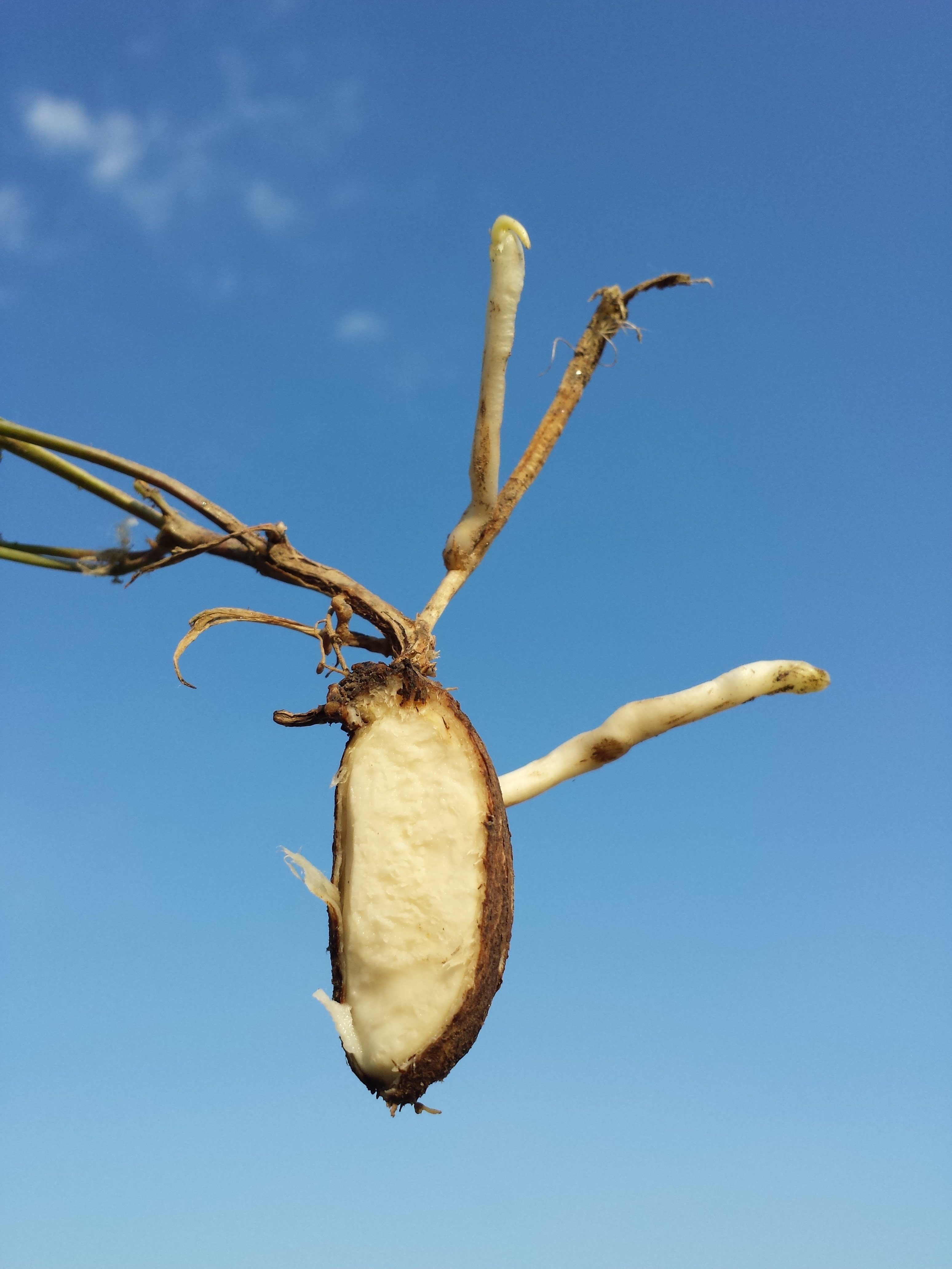 Tuber, cut-through Taxonym: Lathyrus tuberosus ss Fischer et al. EfÖLS 2008 ISBN 978-3-85474-187-9 Location: next to Korneuburg, district Korneuburg, Lower Austria - ca. 170 m a.s.l. Habitat: ruderal area